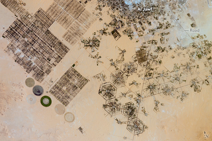 Astronauts aboard the International Space Station used an 1150 mm lens to capture this photograph of a variety of agricultural patterns near an oasis in eastern Libya. This area is one of the most remote places in Africa, more than 900 kilometers (560 miles) from the nearest major city. The cluster of buildings, roads, and small farming operations near the top of the photo is the town of Al Jawf. Each farming pattern in the image is related to different irrigation methods. The honeycombs in the center are what remains of the first planned farming method in the Libyan Desert, implemented around 1970. The large circles (about 1 kilometer wide) of center-pivot irrigation systems (lower left) replaced the honeycombs in order to conserve water. The grid system (upper left) is perhaps one of the oldest known to planned agriculture, but it is still used alongside the more modern patterns. (This wider view shows the full extent of the oasis.) Near Al Jawf, the oasis is covered in lush green gardens and palm trees that survive due to pumping from the largest known fossil water aquifer in the world: the Nubian Sandstone Aquifer. More than 20,000 years ago, the Saharan landscape was wet, and heavy rainfall continuously refilled the aquifer. Today the region receives less than 0.1 inches of rain a year, making this aquifer a non-renewable resource. An agreement was recently hashed out between Libya and the UN Food and Agriculture Organization to improve food security in the region by developing the country’s agriculture industry. This means the use of fossil water will continue, and the agricultural patterns we see today are likely to survive for years to come.